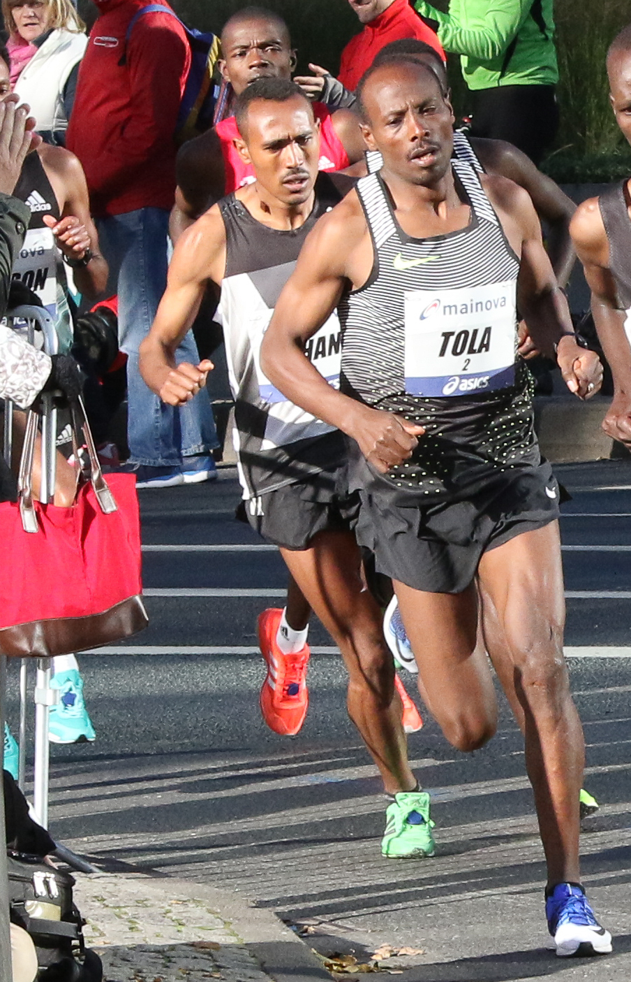 Tadese Tola during the 2016 Frankfurt Marathon